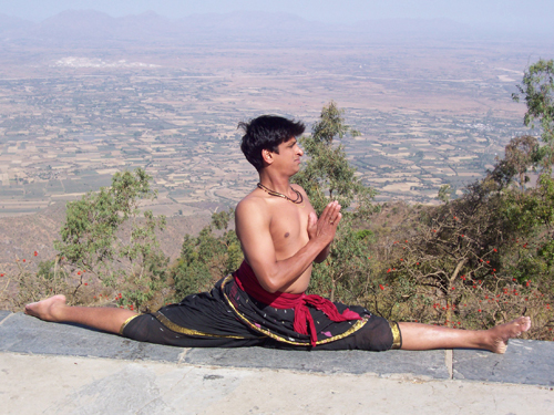 Hanumanasana, the yoga version of the front splits, here with the hands in Anjali mudra.